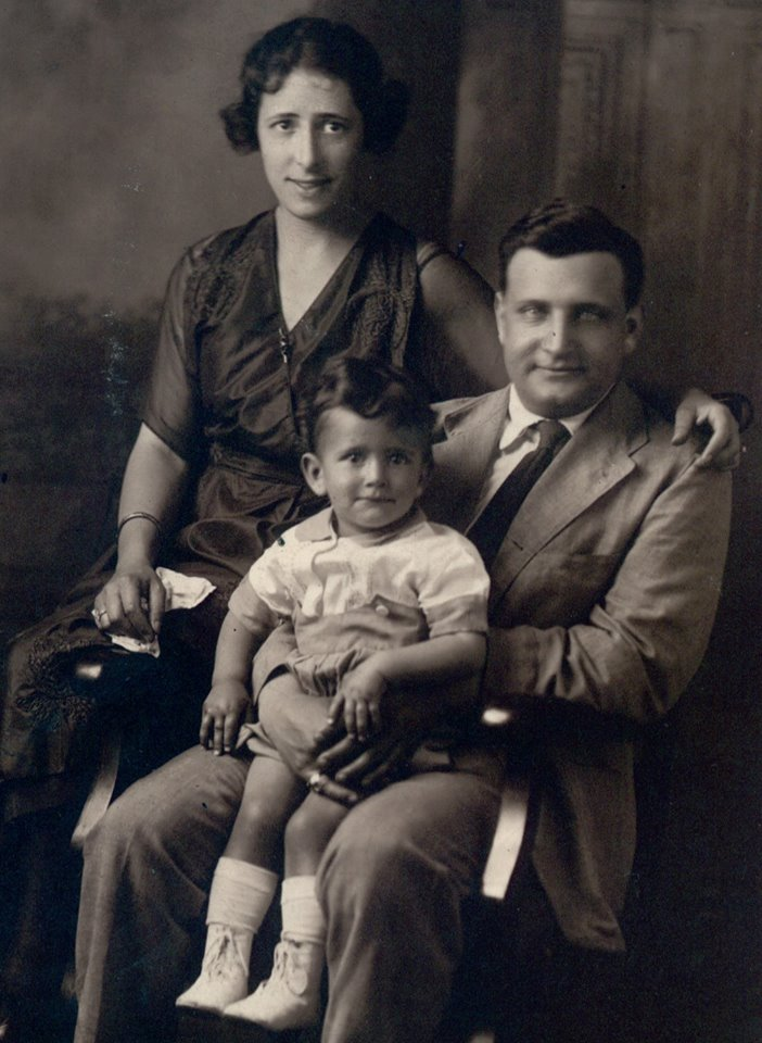 Harry V. Jaffa, 1921